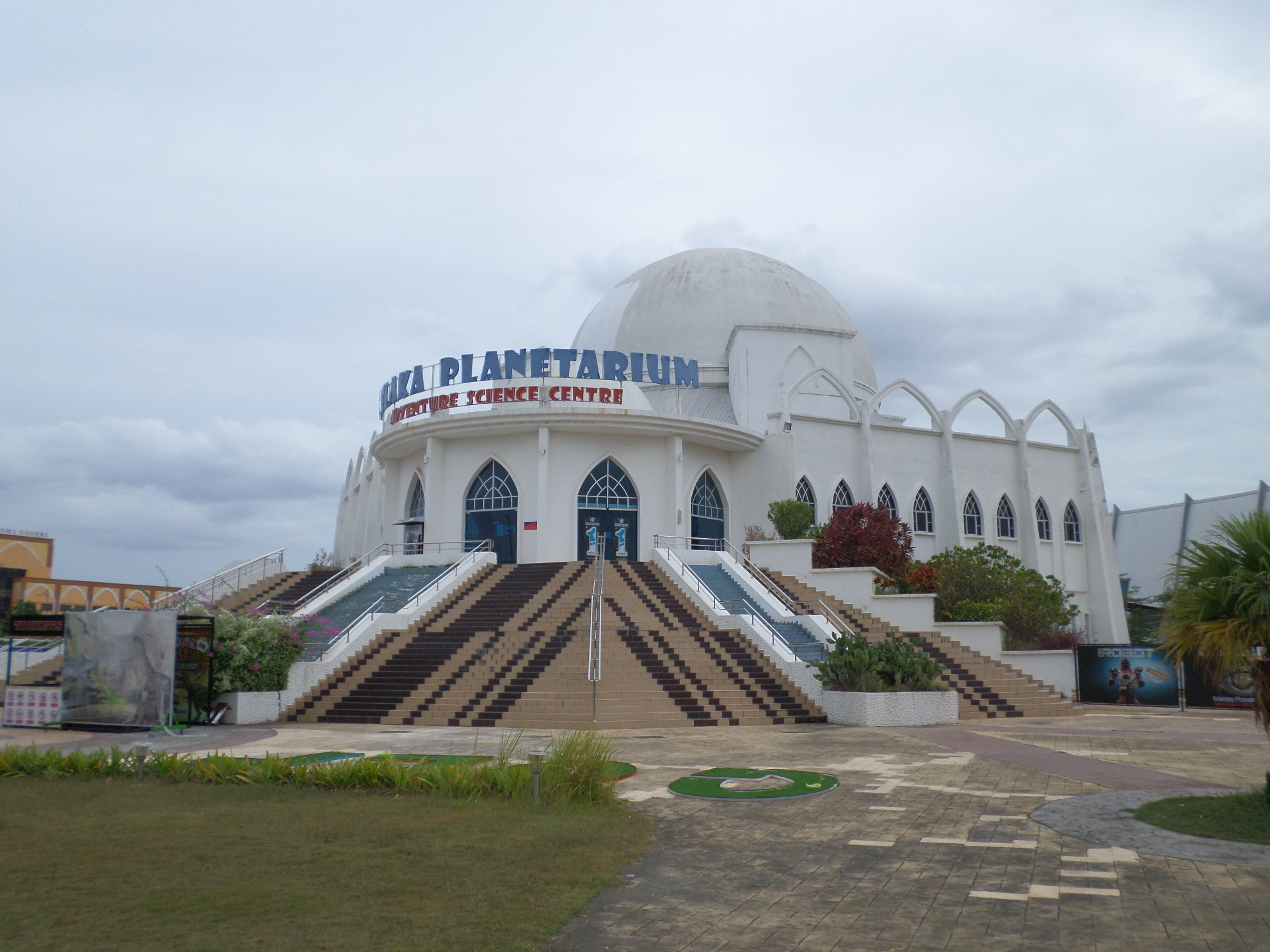 Melaka Planetarium, Ayer Keroh, Melaka, MalaysiaBahasa Melayu: Planetarium Melaka, Ayer Keroh, Melaka, Malaysia